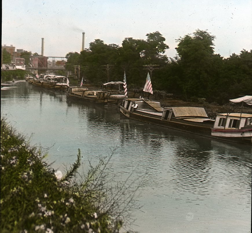 House boats along the C&O Canal just west of Georgetown